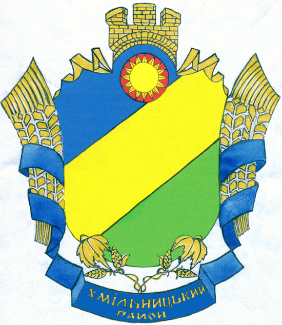 Coat of arms of Khmilnyk Raion